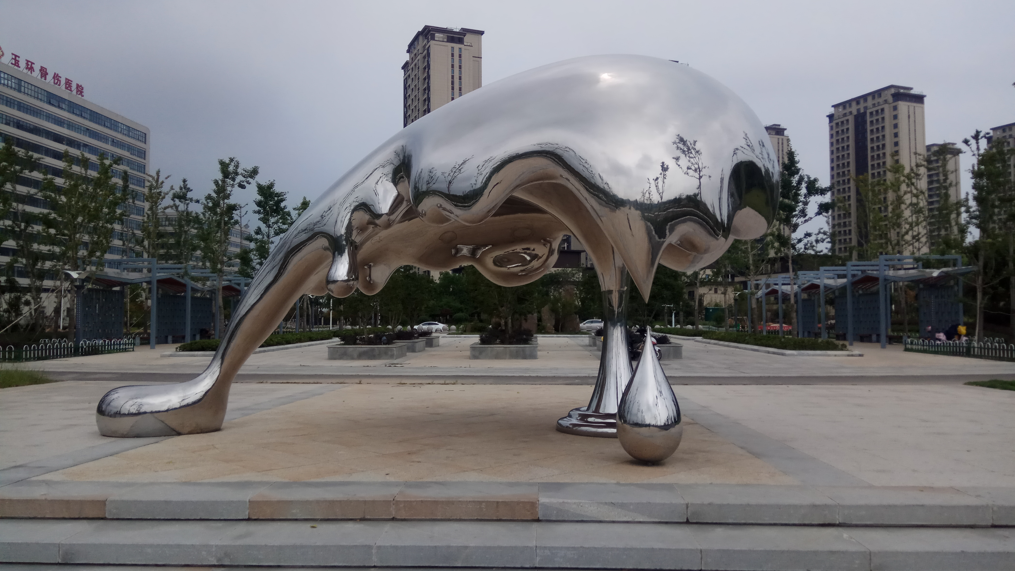 Yuhuan Huyun International Sculpture Park and Art Museum.